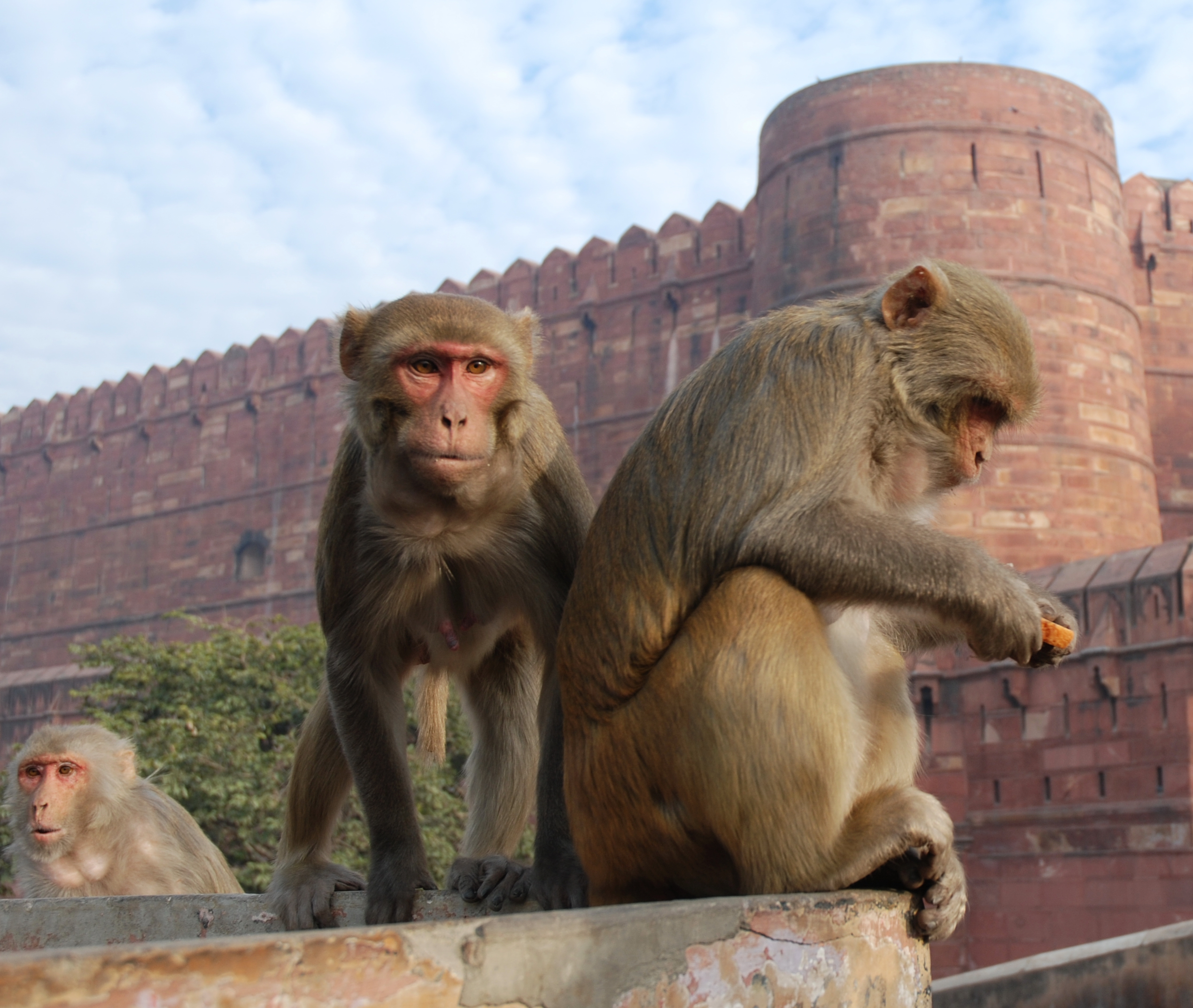 Rhesus Macaques (Macaca mulatta) in Agra, northern India